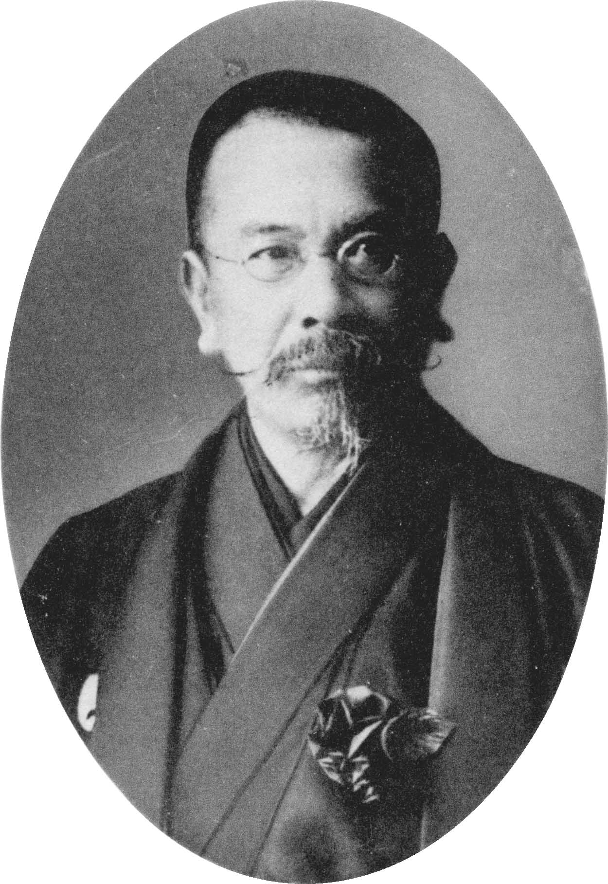 Tatsuno Kingo, Director of the College of Engineering at Imperial University of Tokyo.